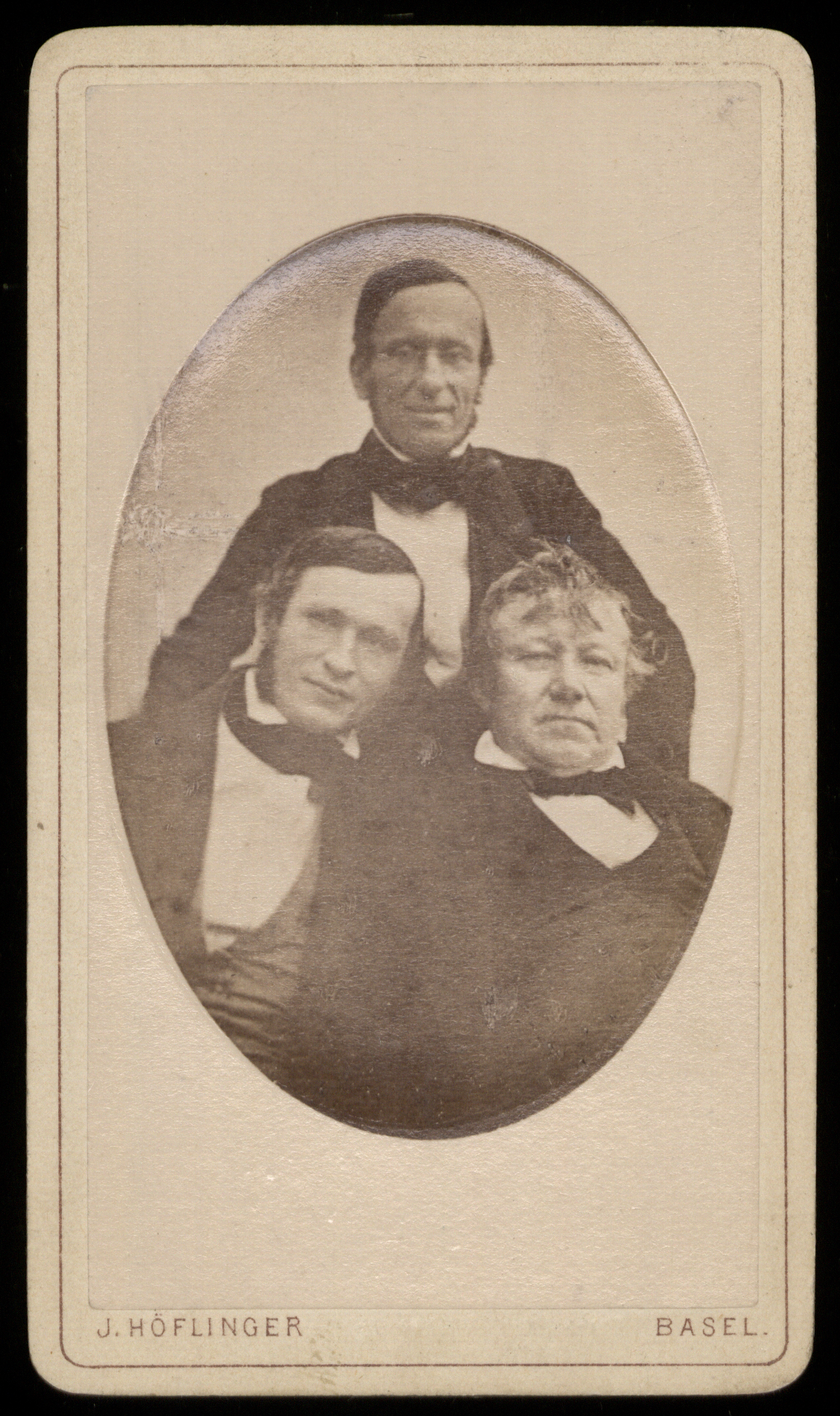 Portrait of Friedrich Miescher (1811-1887), photo